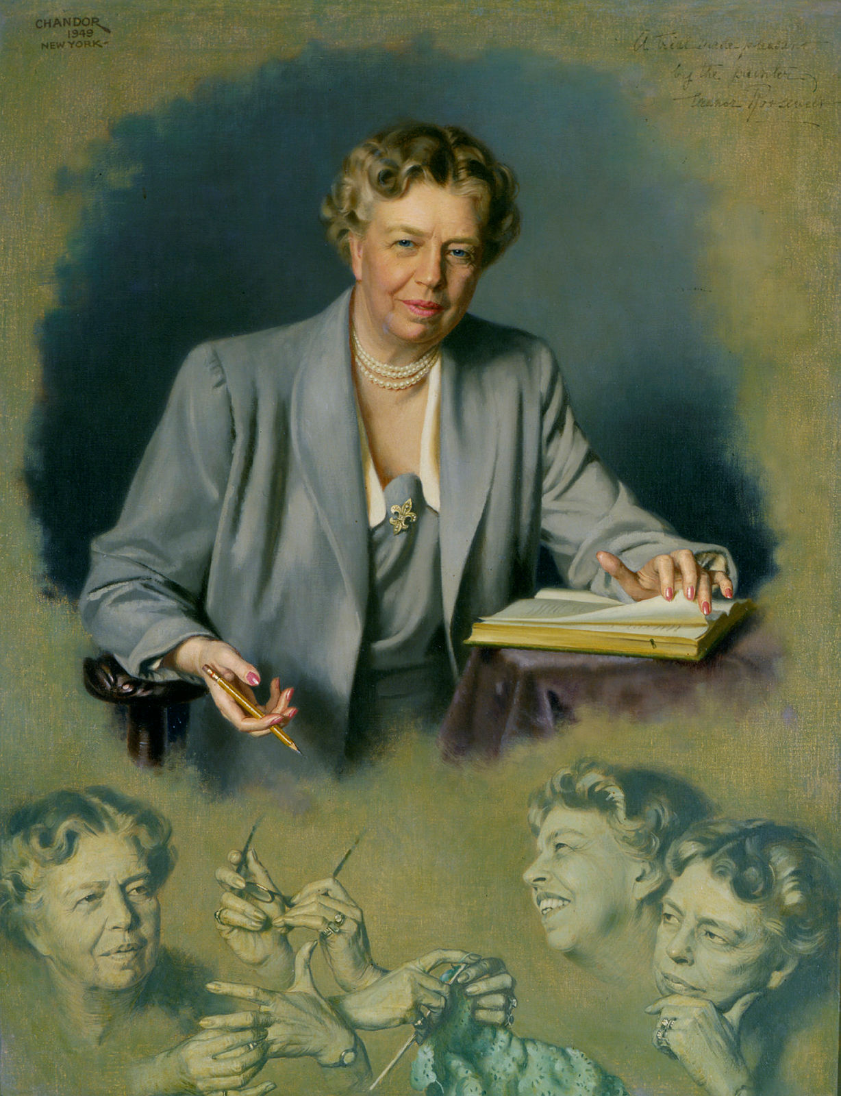 Portrait of Eleanor Roosevelt, painted in the New York studio of Douglas Chandor in 1949. In 1966 the painting was purchased for the White House by the White House Historical Association. It hangs in the Vermeil Room. More information from the White House Historical Association Eleanor Roosevelt's My Day column of December 16, 1949